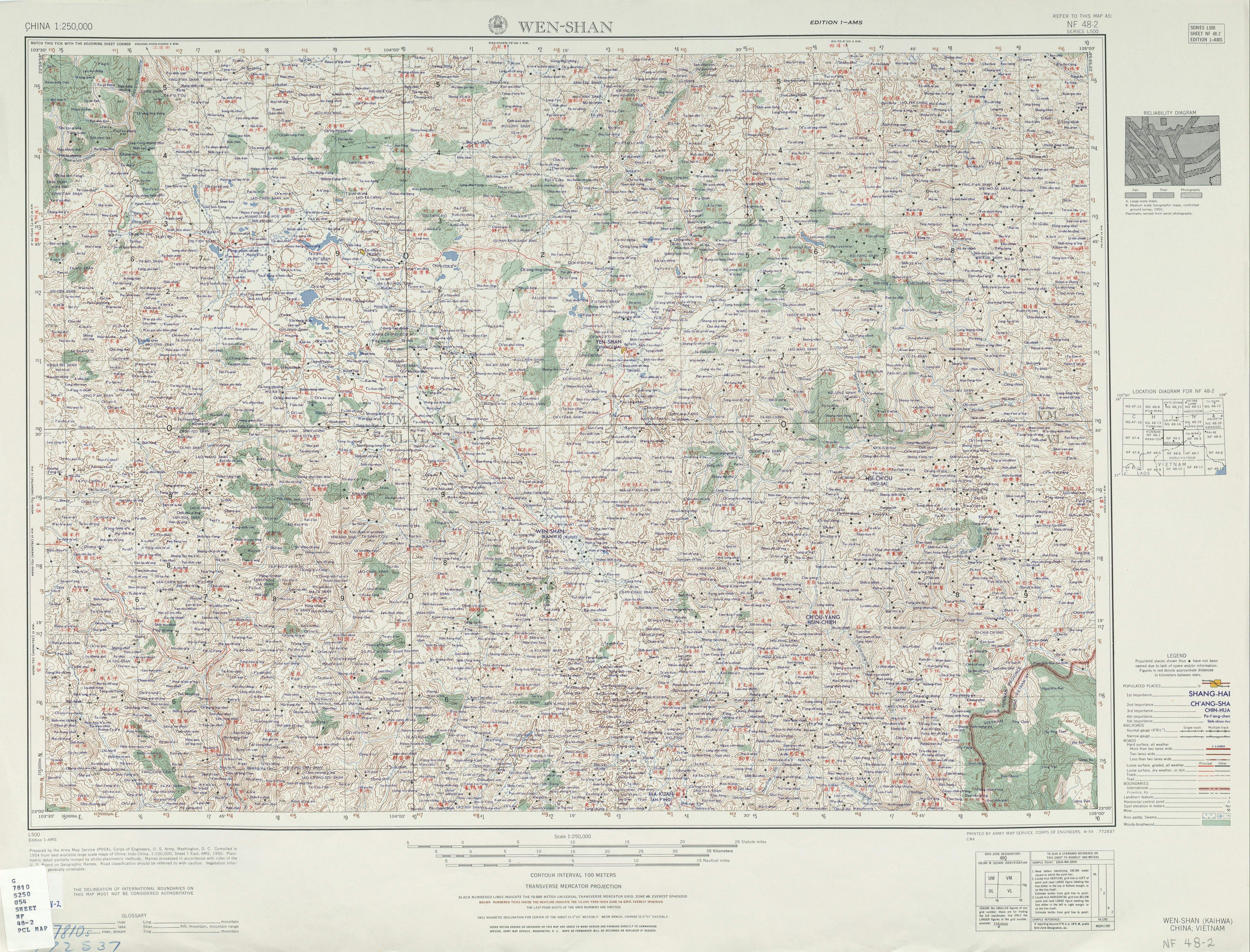 China AMS Topographic Maps series